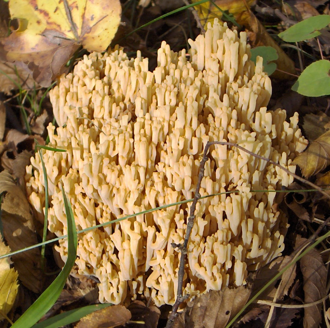 Ramaria pallida from Lipik, Croatia